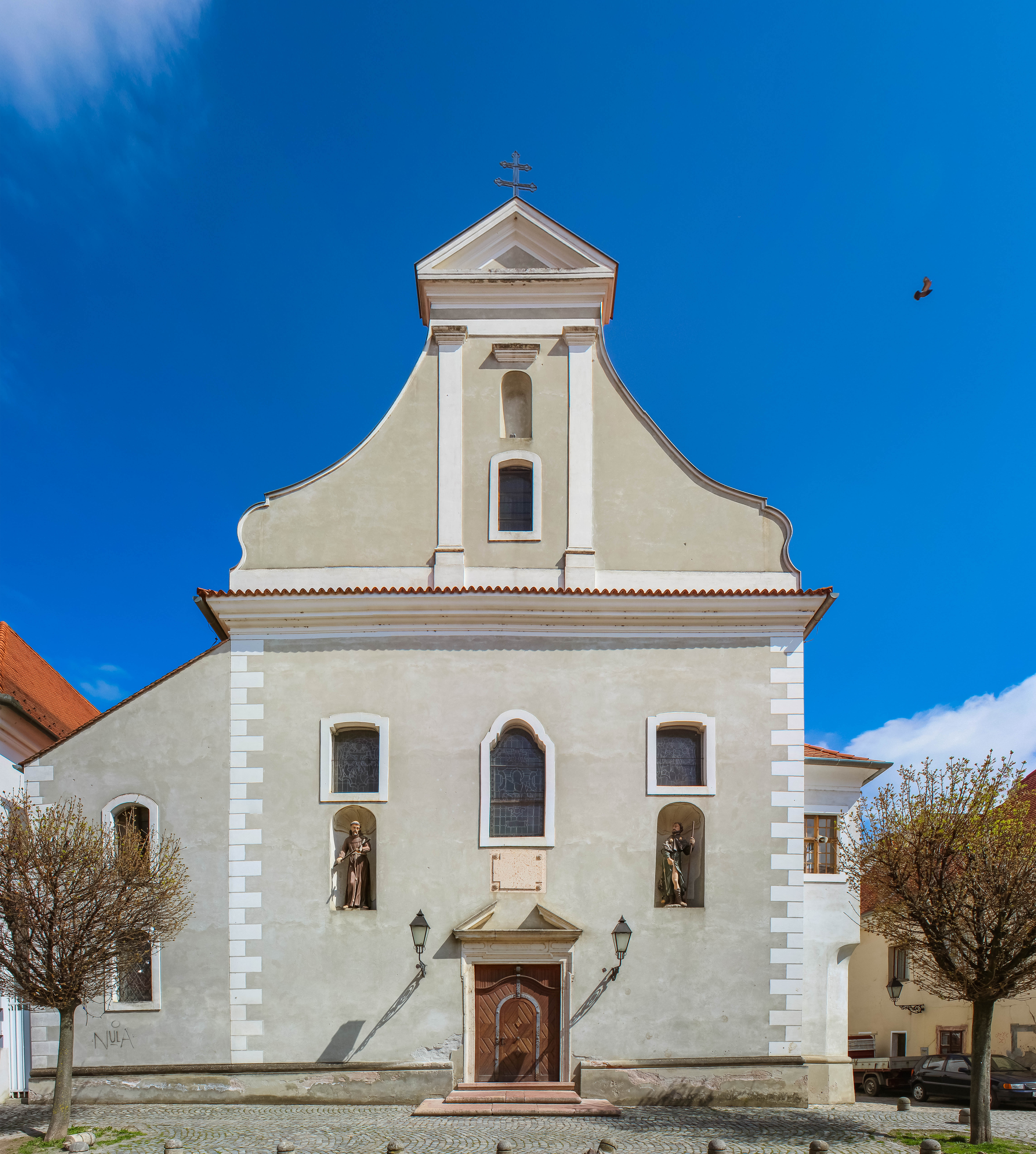 Church